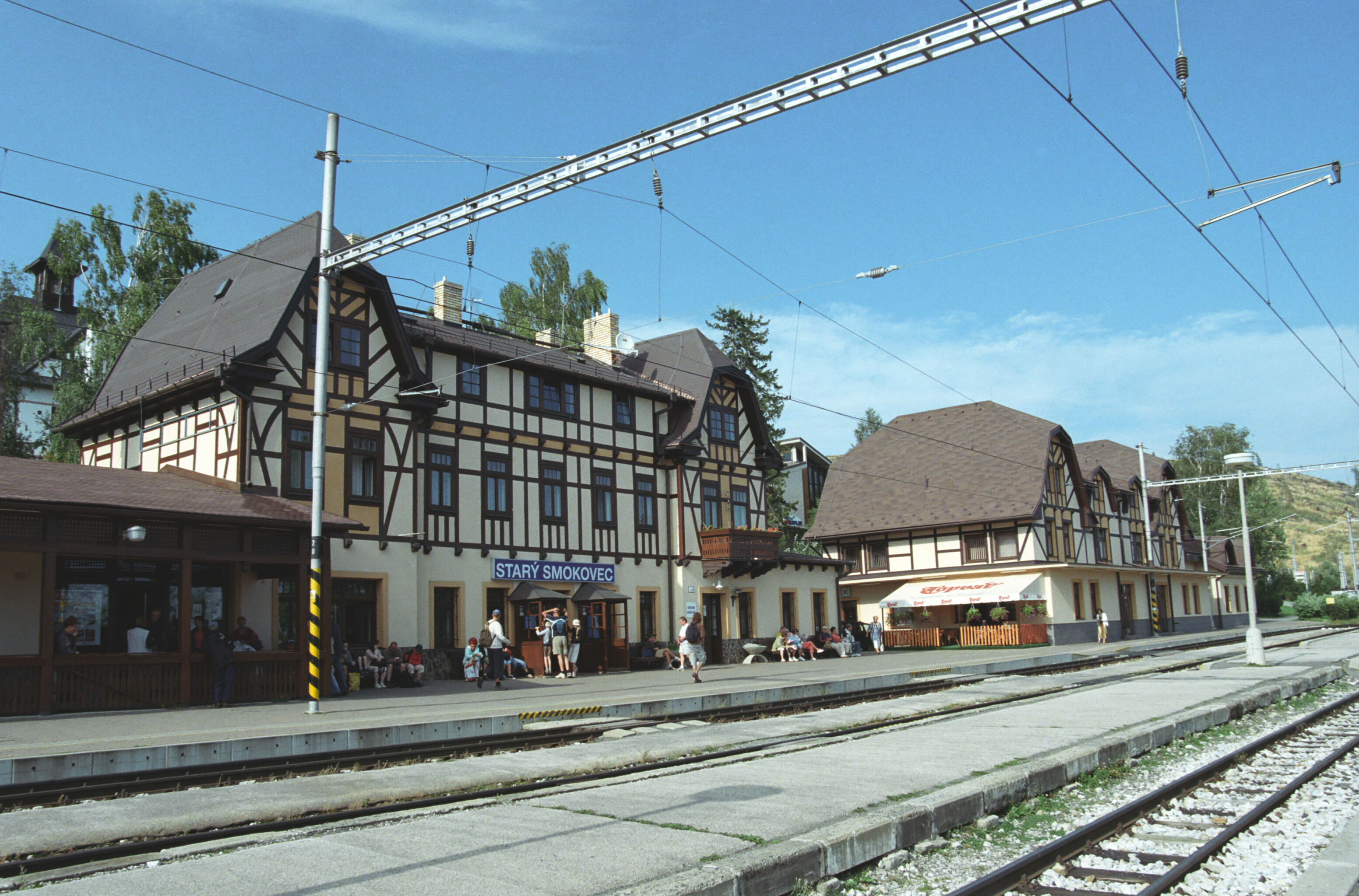 Rail station Starý Smokovec in Slovakia